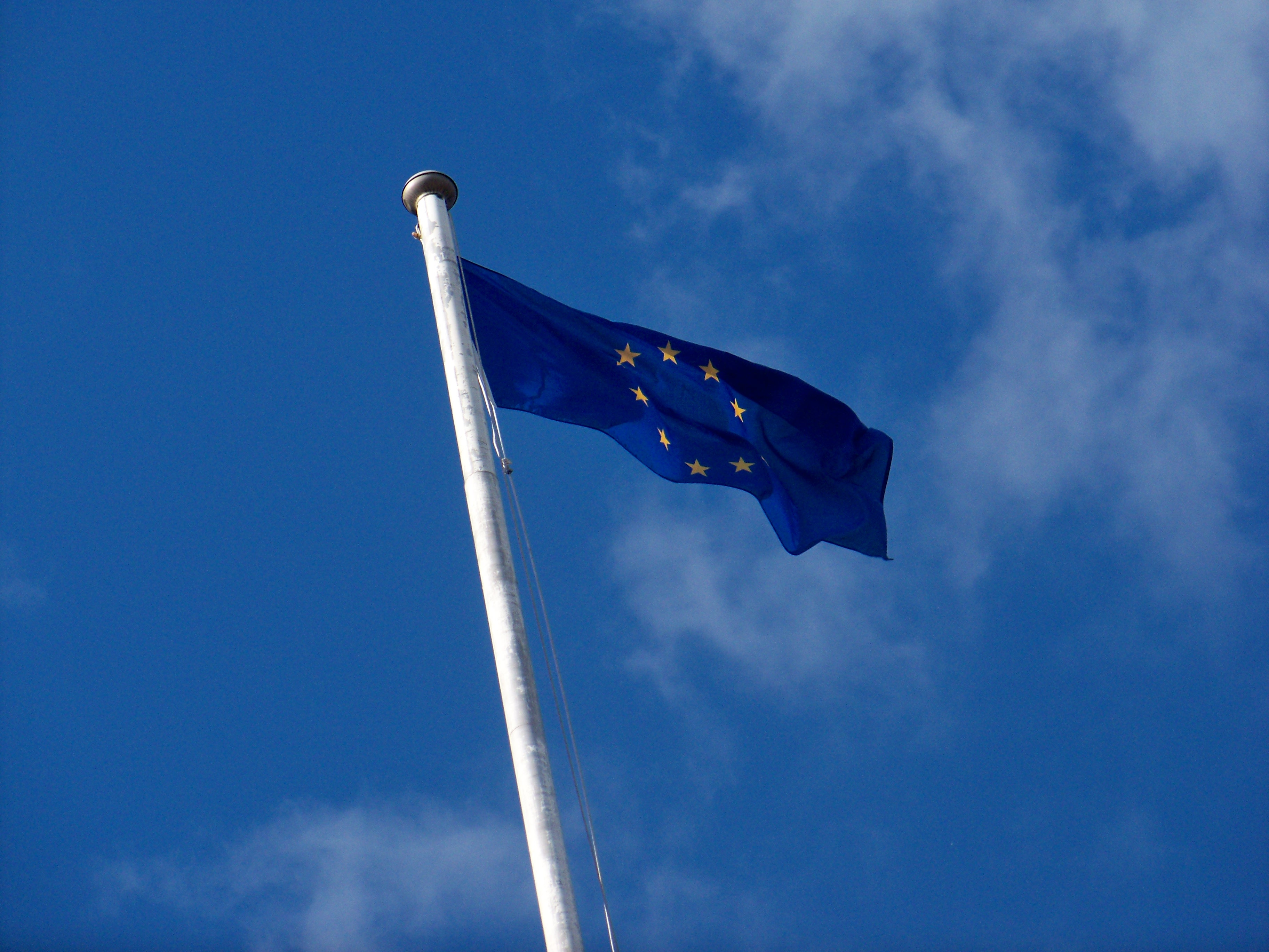 Flag of the European Union flying on-top of Leeds Town Hall in Leeds, West Yorkshire. Taken on the evening of Thursday the 27th of May 2010.